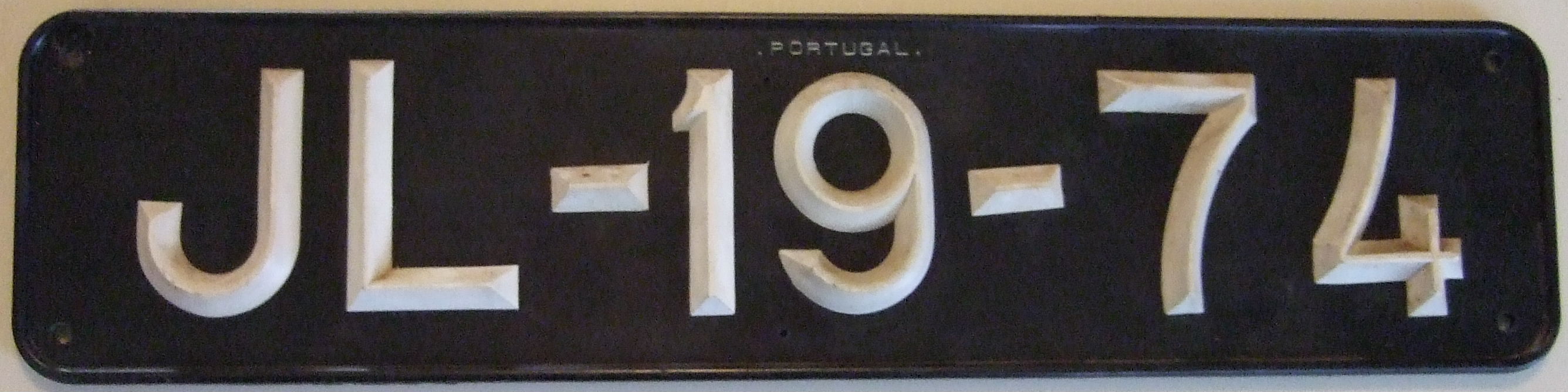 Plate is made of a heavy rubberlike material.